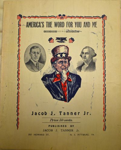 Cover Art